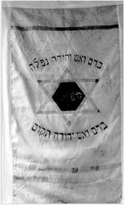 Flag of Hashomer